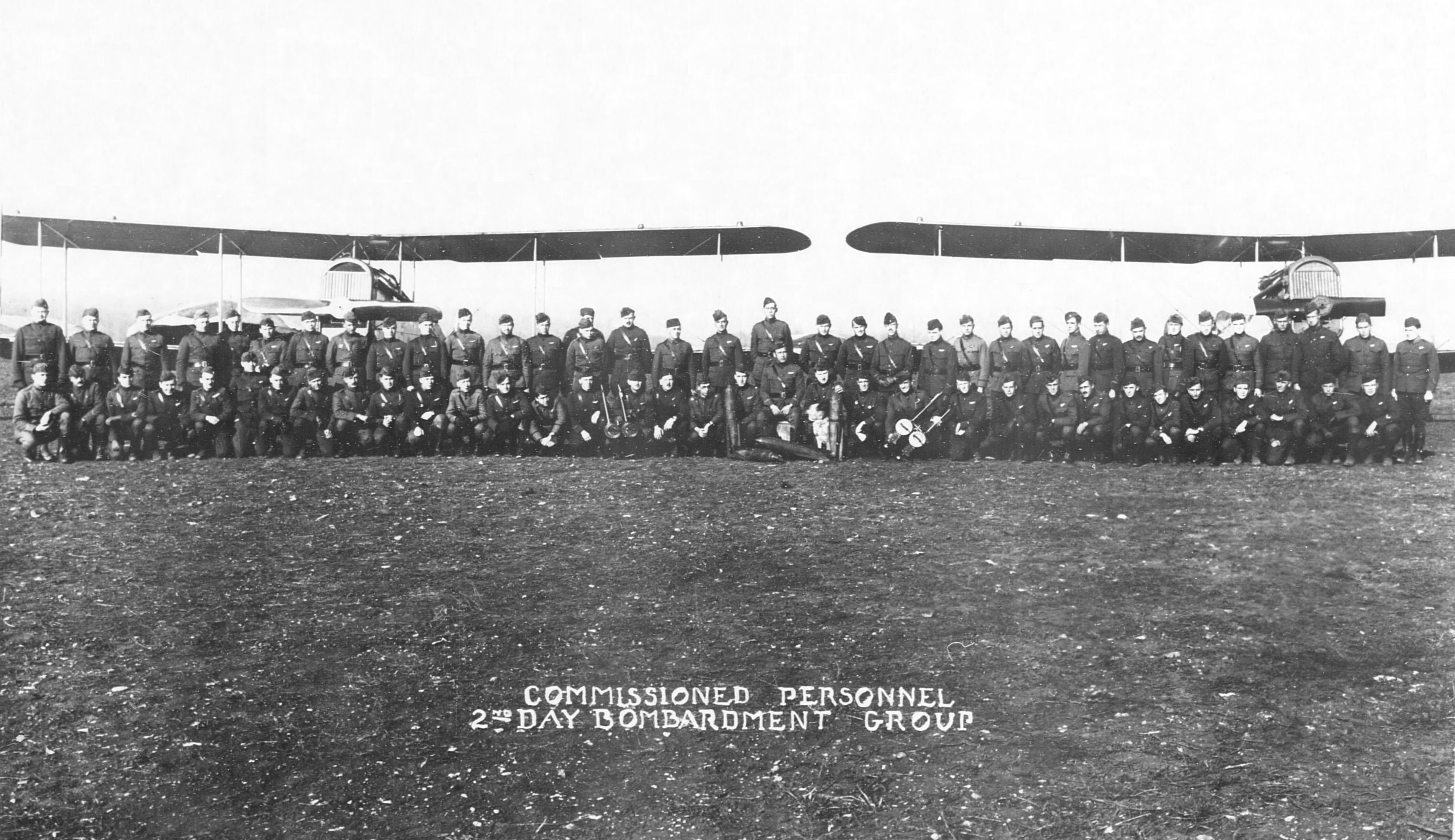 2d Day Bombardment Group